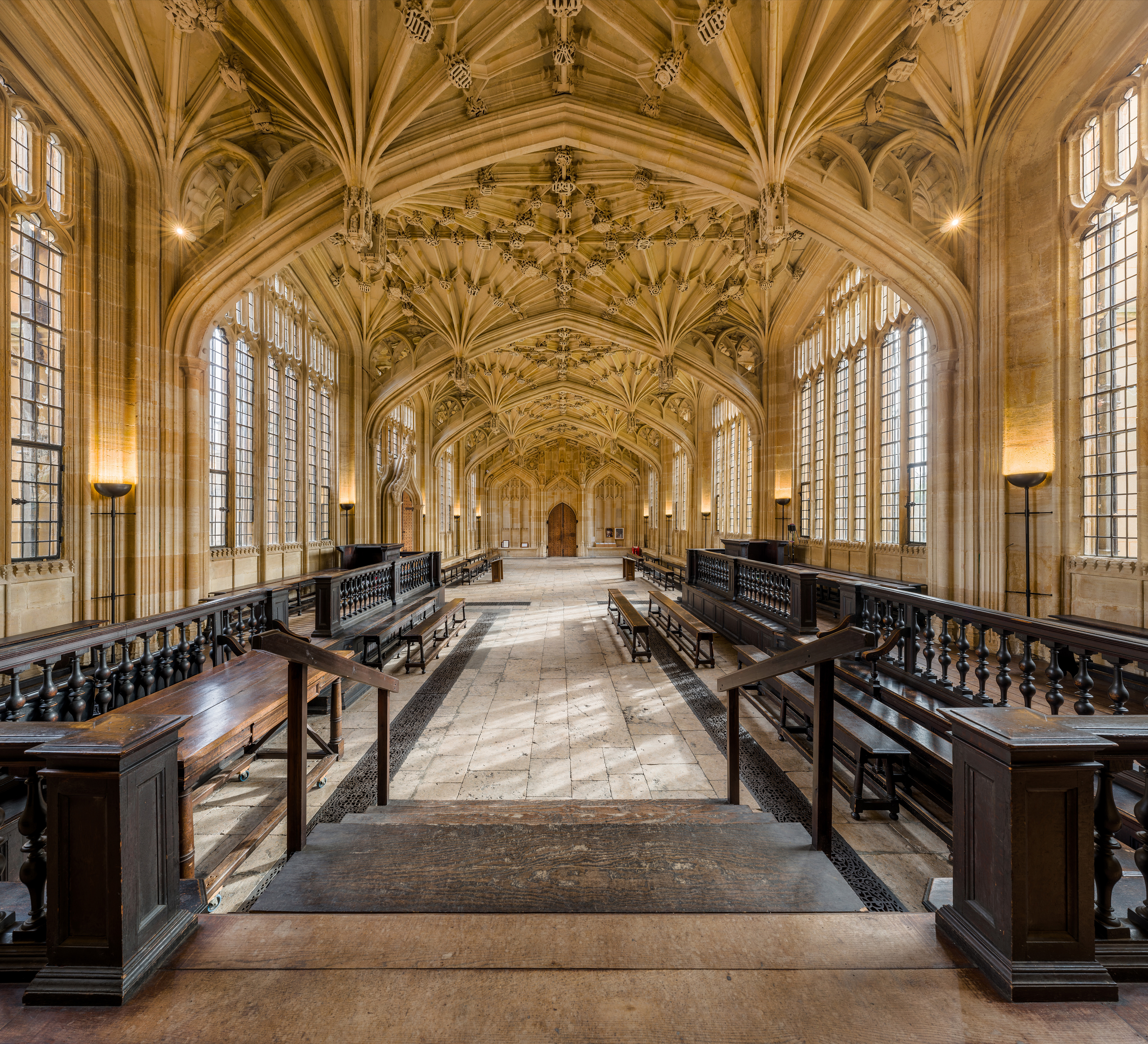 Looking east in the interior of the Divinity School in the Bodleian Library, Oxford, Oxfordshire, England.